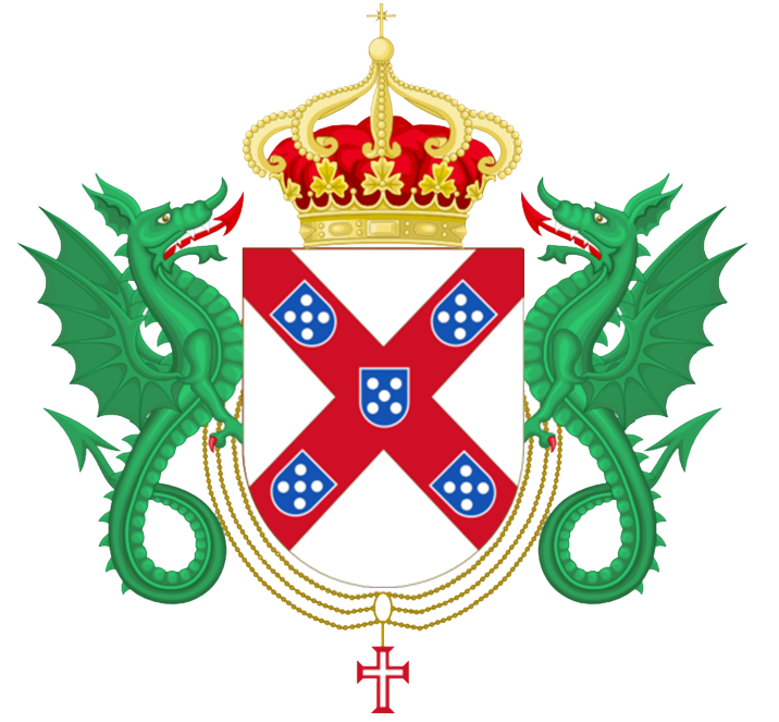 I used the works File:Duchy of Braganza (1640-1910).png and File:Coat of Arms of the Kingdom of Portugal (1640-1910).png to create this piece. It is a full complete arms of the House of Braganza